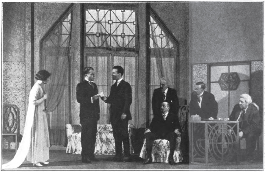 R. U. R. (Rosssum's Universal Robots). From Act II of the play by Karel Čapek, produced by Theatre Guild. On the left: Helena Glory, played by Kathlene MacDonell. Third from the left: Harry Domin, played by Basil Sydney. On the right: Mr. Alquist, played by Louis Calvert.